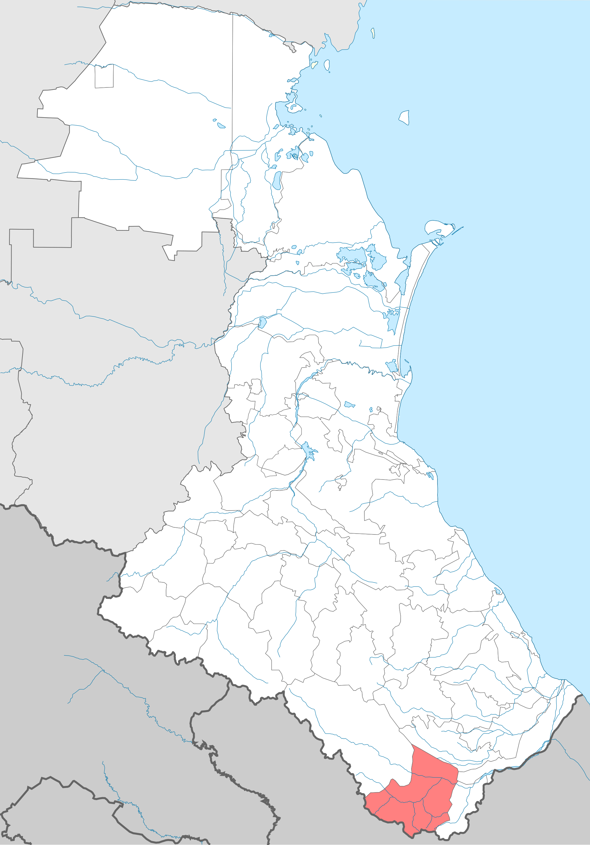 Ahtynsky district locator map